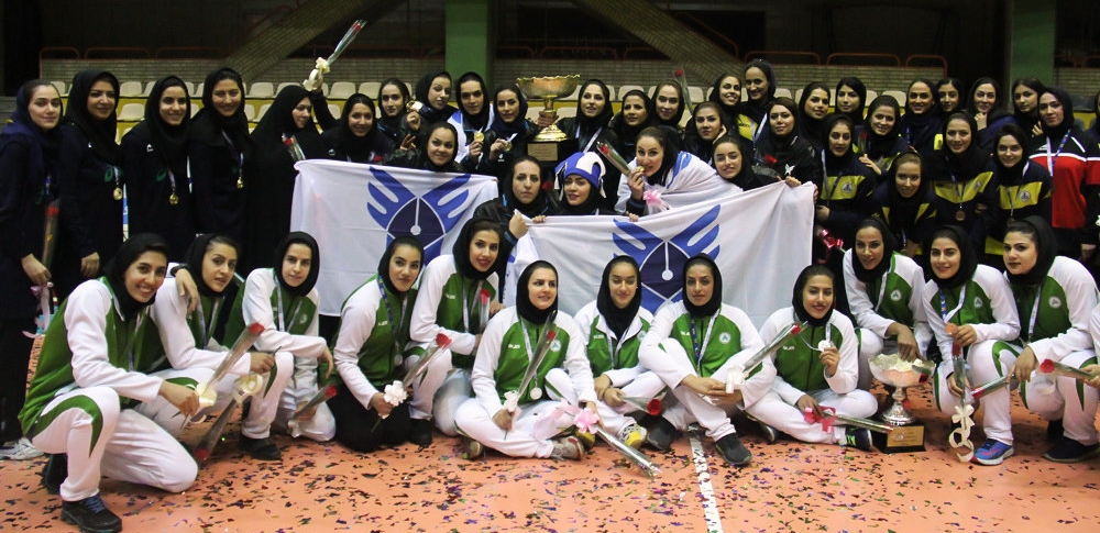 League-Volleybal-Iran-1393